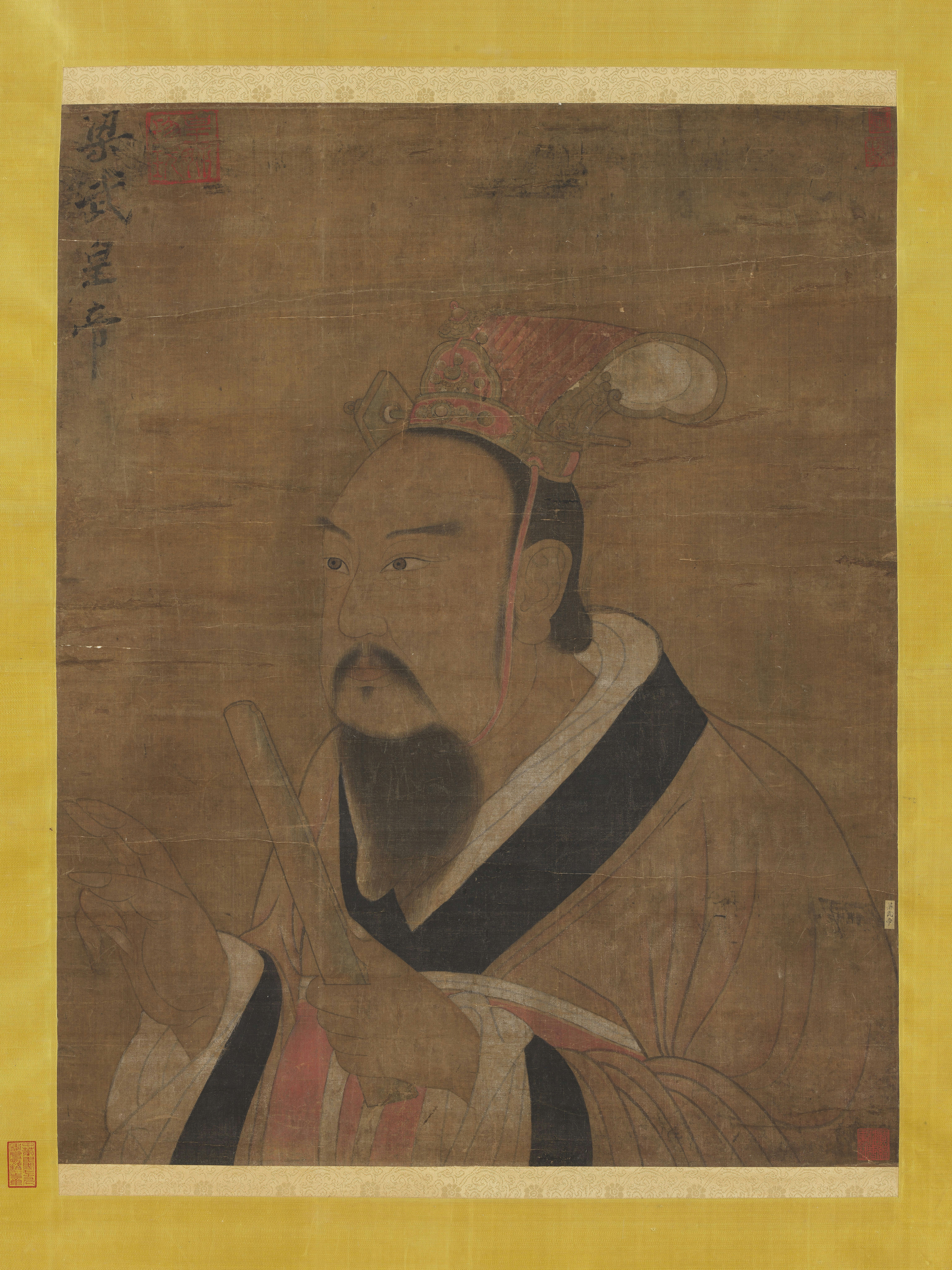 Xiao Yan, Martial Emperor of Liang. Hanging scroll, color on silk. Original size 76.8x56.4 cm (height x width). Image here is slightly cropped. Text is 梁武皇帝 (Emperor Wu of the Liang Dynasty). Located in National Palace Museum, Taipei.